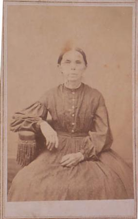 Hesba Stretton (1832-1911)